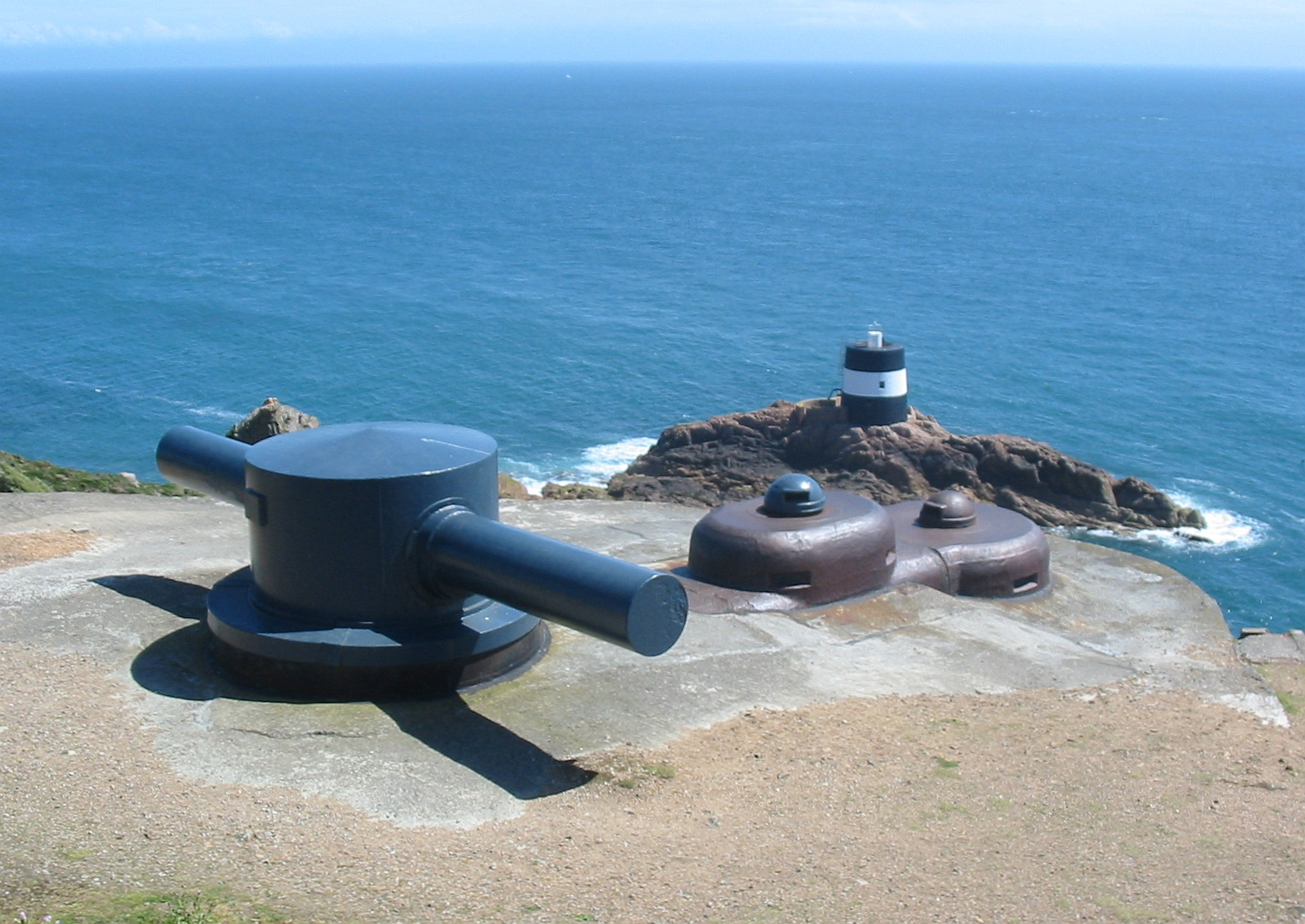 Jersey